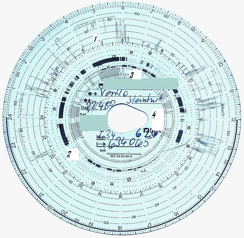 Tachograph